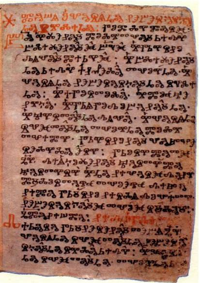 Photographic reproduction of Kiev Folios, folio seven, right side.